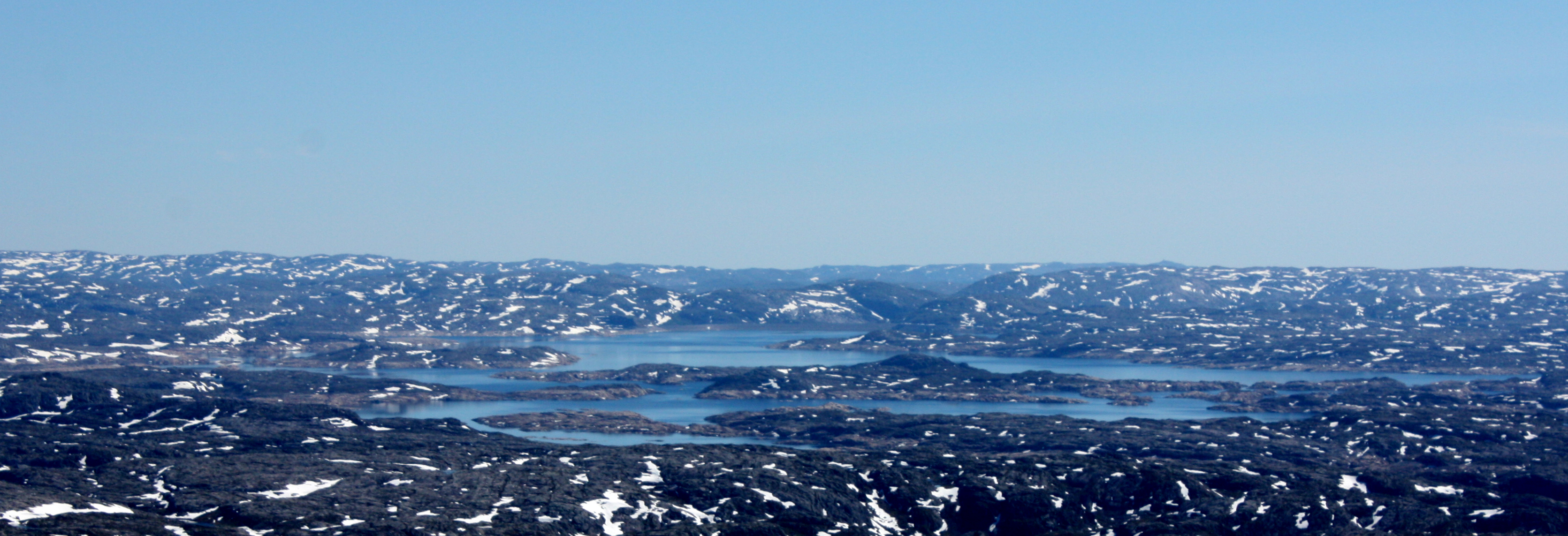 Blåsjø seen from Snønuten.